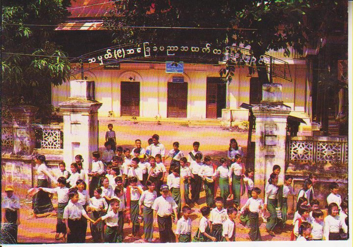 The old high school in 1980s era.